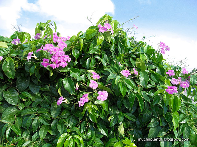 Phryganocydia corymbosa, Bignoniaceae